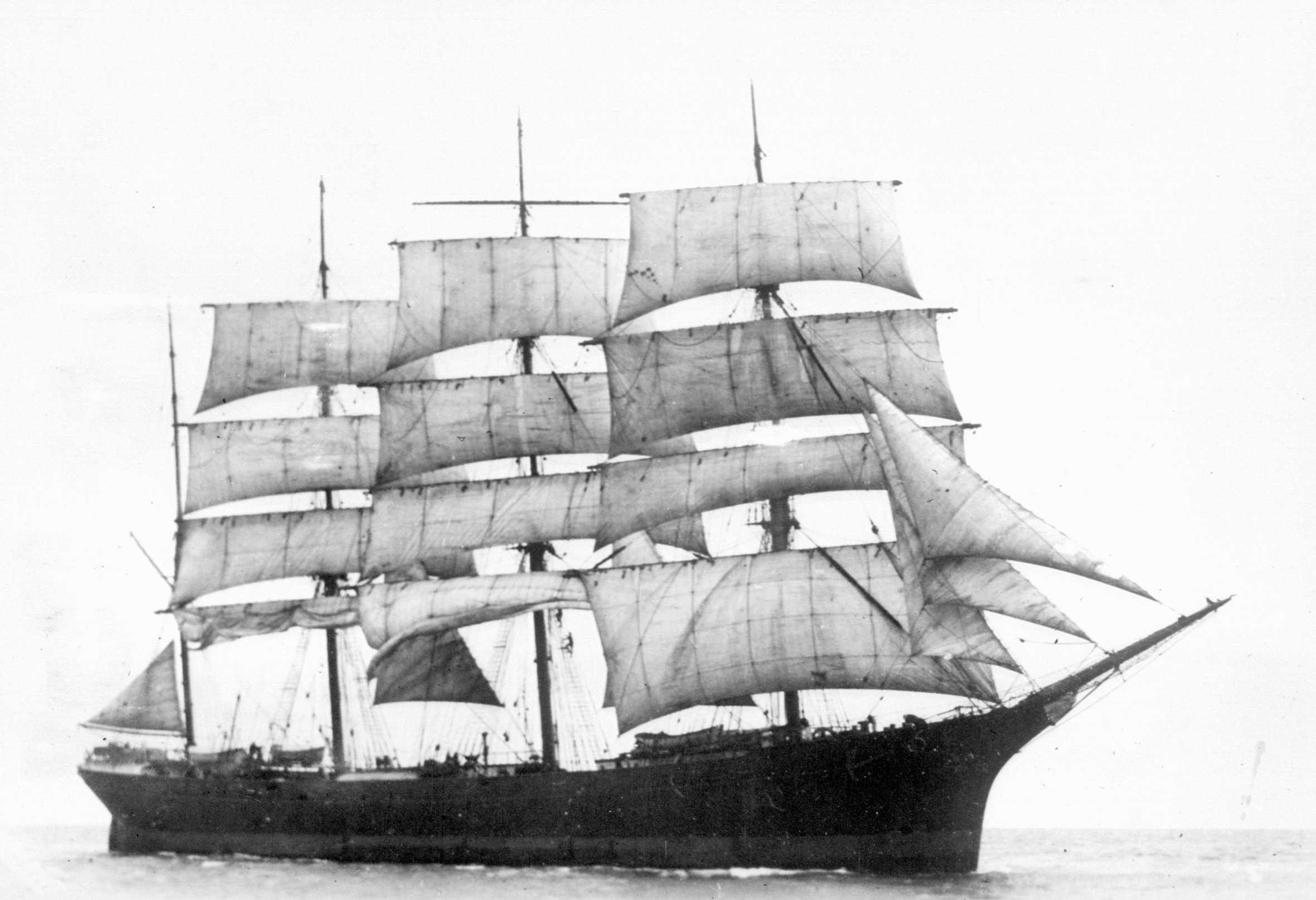 Original caption: “DRUMCLIFF. Liverpool. 2525 tons. Built at Greenock. 1887. Afterwards Omega. Iron..”